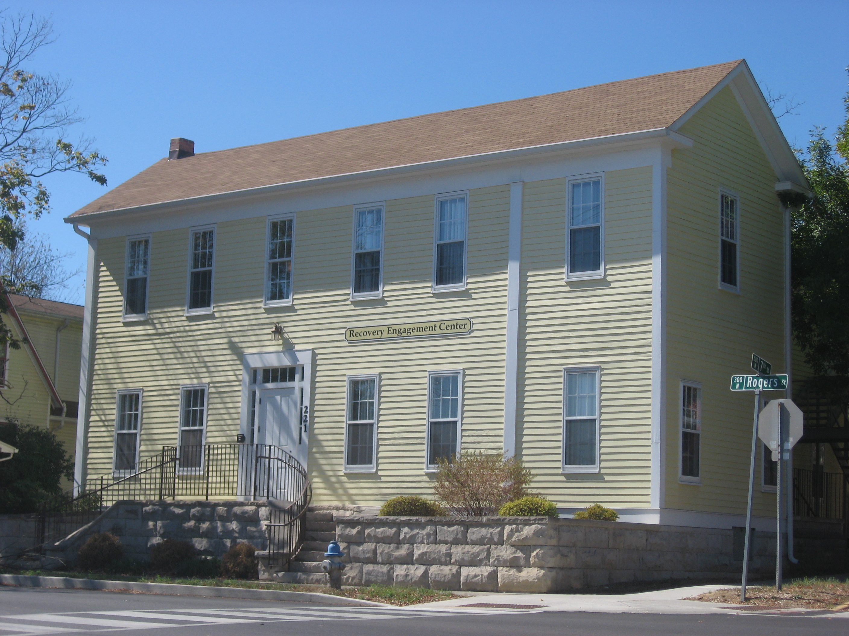 Front and northern side of the Old Boarding House (now known as the Recovery Engagement Center), located at 221 N. Rogers Street in Bloomington, Indiana, United States. Built in 1850, it is a part of the Bloomington West Side Historic District, a historic district that is listed on the National Register of Historic Places.